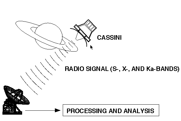 Concept of operations for Cassinis RSS-Instrument